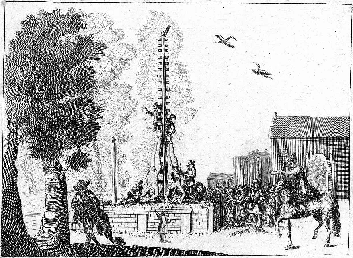 The murder of the brothers Cornelis and Johan de Witt in The Hague, the Netherlands in 1672.